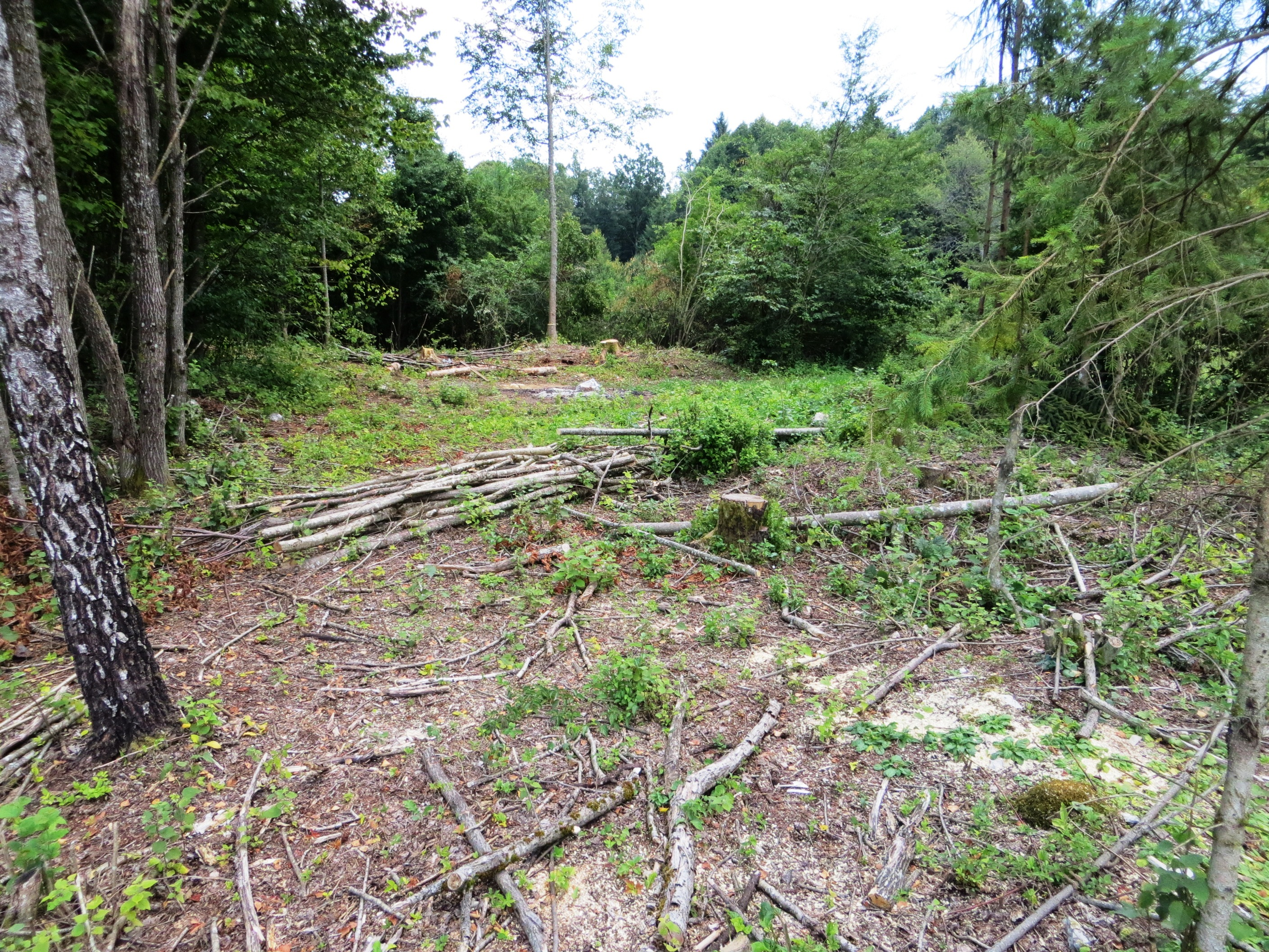 The site of the former church in Kleč, Municipality of Kočevje, Slovenia